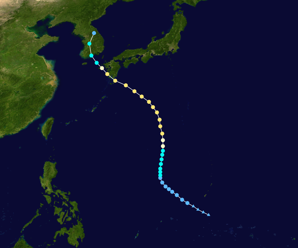 Typhoon Judy 1989 track. Uses the color scheme from the Saffir-Simpson Hurricane Scale.